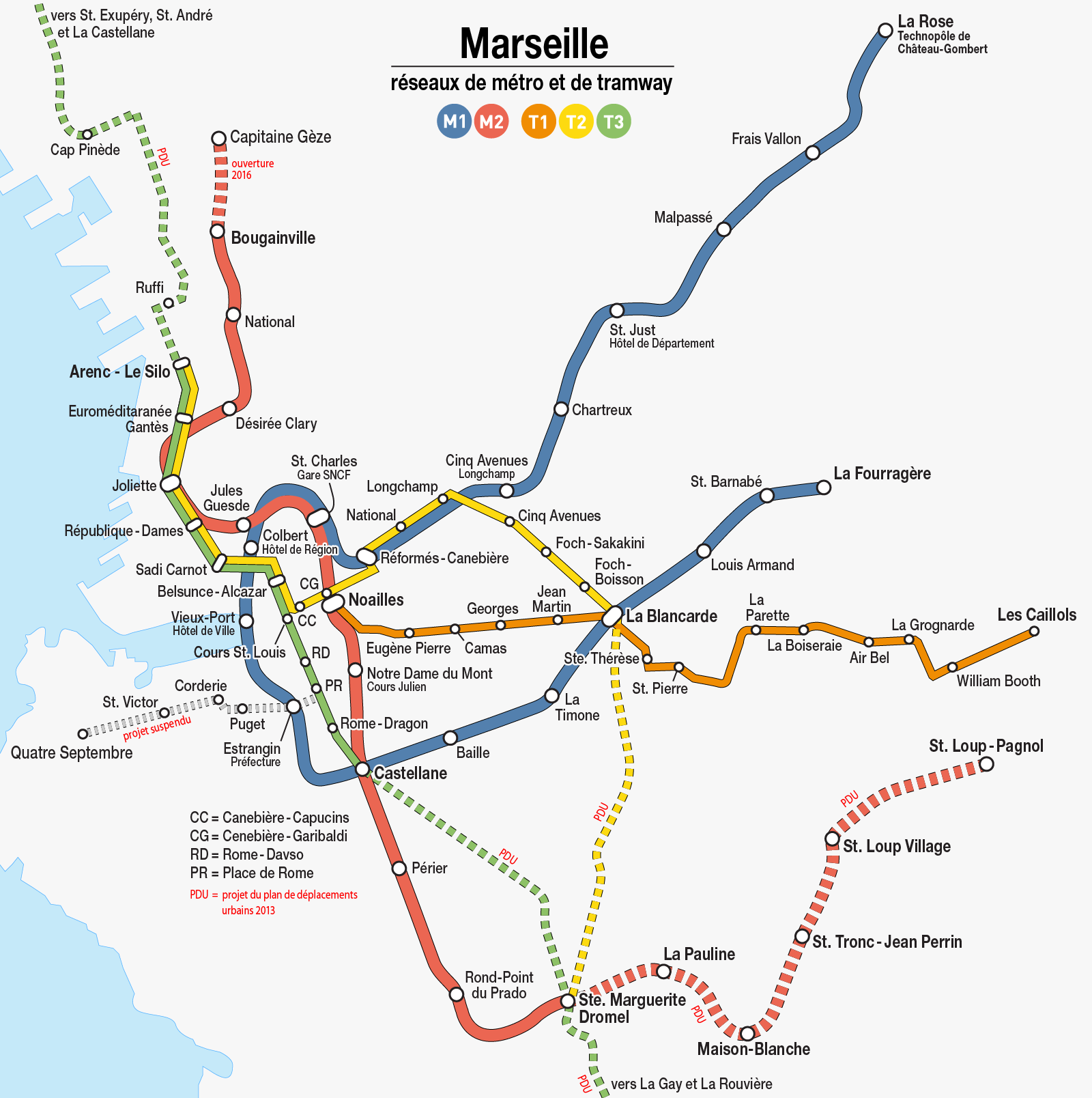 Map: Marseille underground and streetcar network as of January 2008